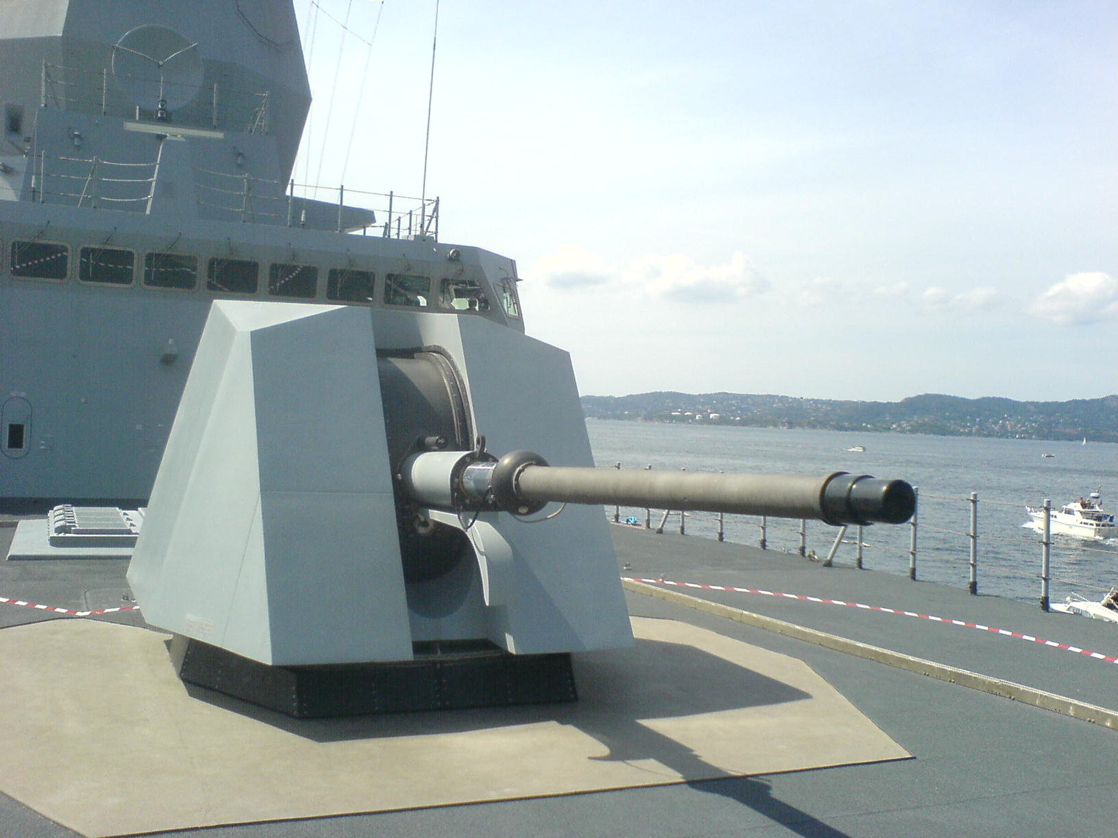 Photo taken by yours sincerely while KNM F.N. was docked in Bergen, and open to the public. Contact me for alternative licencing.